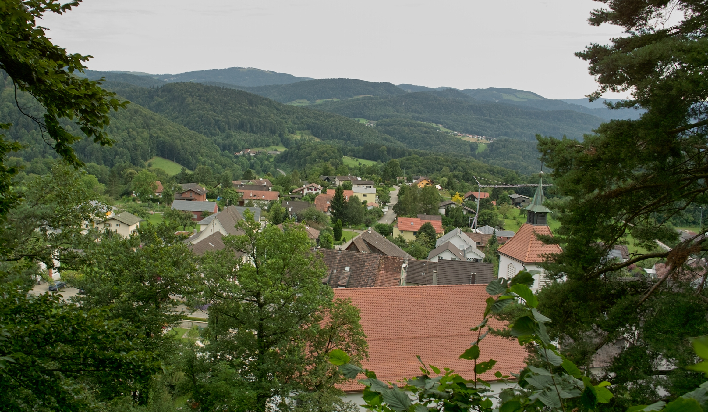 Himmelried, canton of Solothurn, Switzerland.